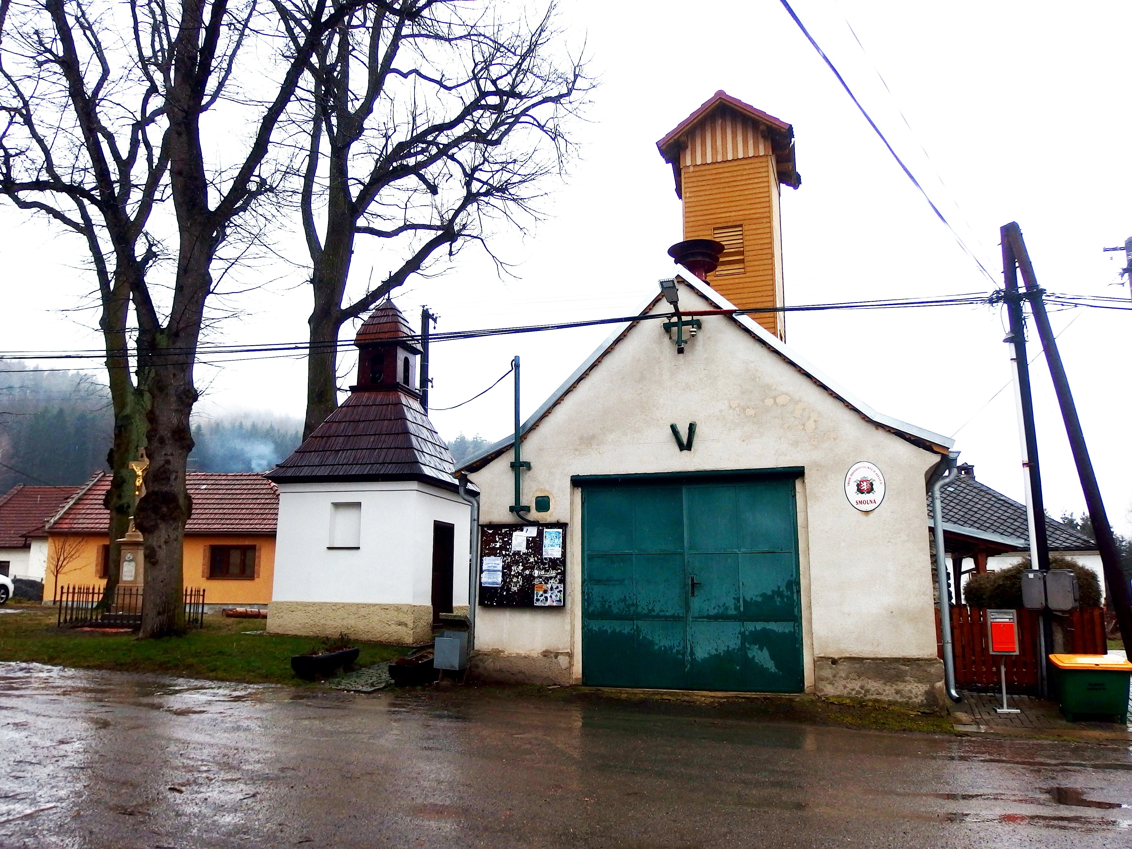 Bělá u Jevíčka, Svitavy District, Czechia, part Smolná.